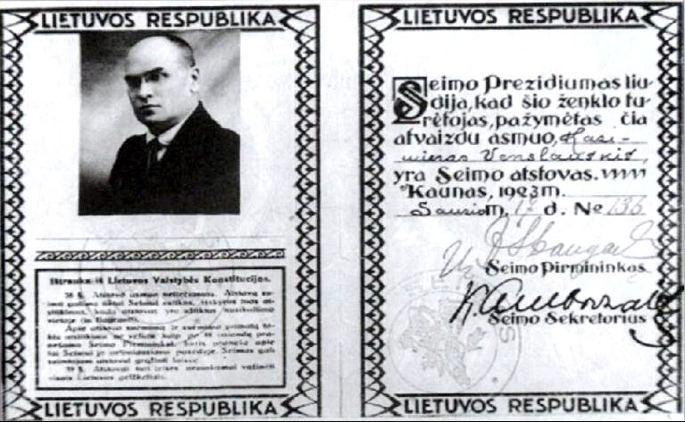 Certificate of seimas of Kazimieras Venclauskis, Lithuania